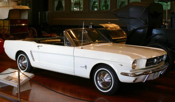 The First Mustang Produced - photographed by DougW of at The Henry Ford in Dearborn, MI. This is Mustang Serial #1, produced in 1964, titled as a 1964 1/2 Mustang due to the fact that the first Mustangs did not come out until the middle of the year.